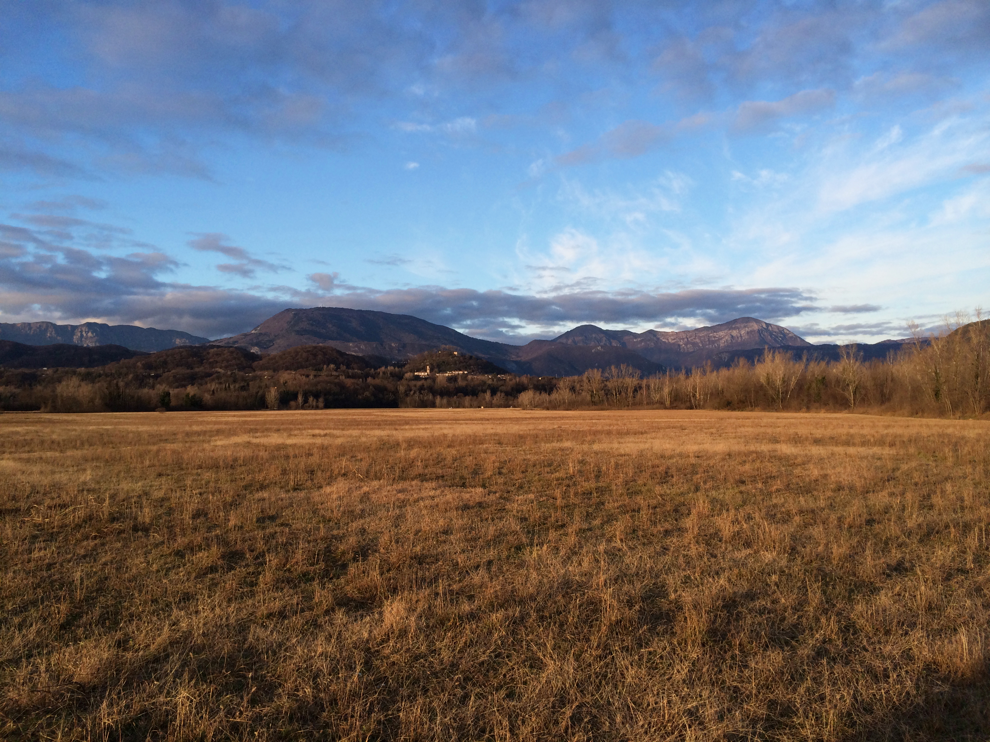 Pinzano al Tagliamento (PN)- Italy as seen from Tagliamento riverside